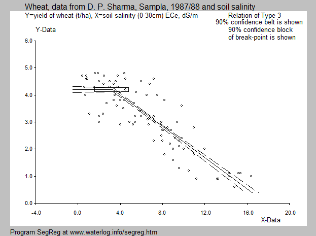 Relation between wheat yield an soil salinity according to Maas-Hoffman model